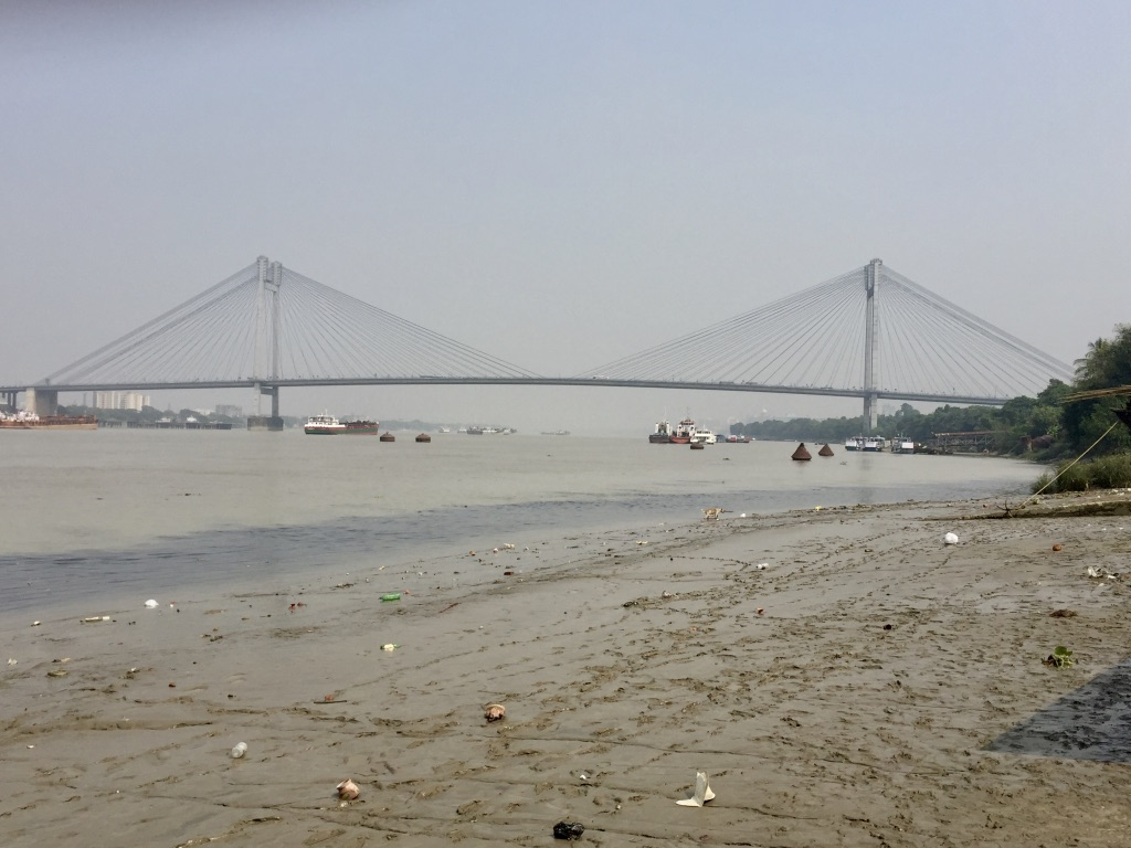 Second Hooghly Bridge